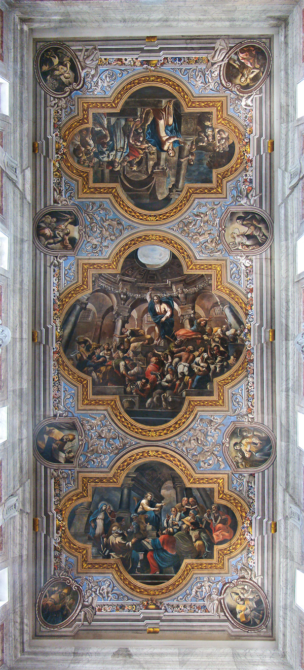 Cocathedral of Santa Maria Assunta, Ostuni, Apulia, Italy. Vault over the nave.